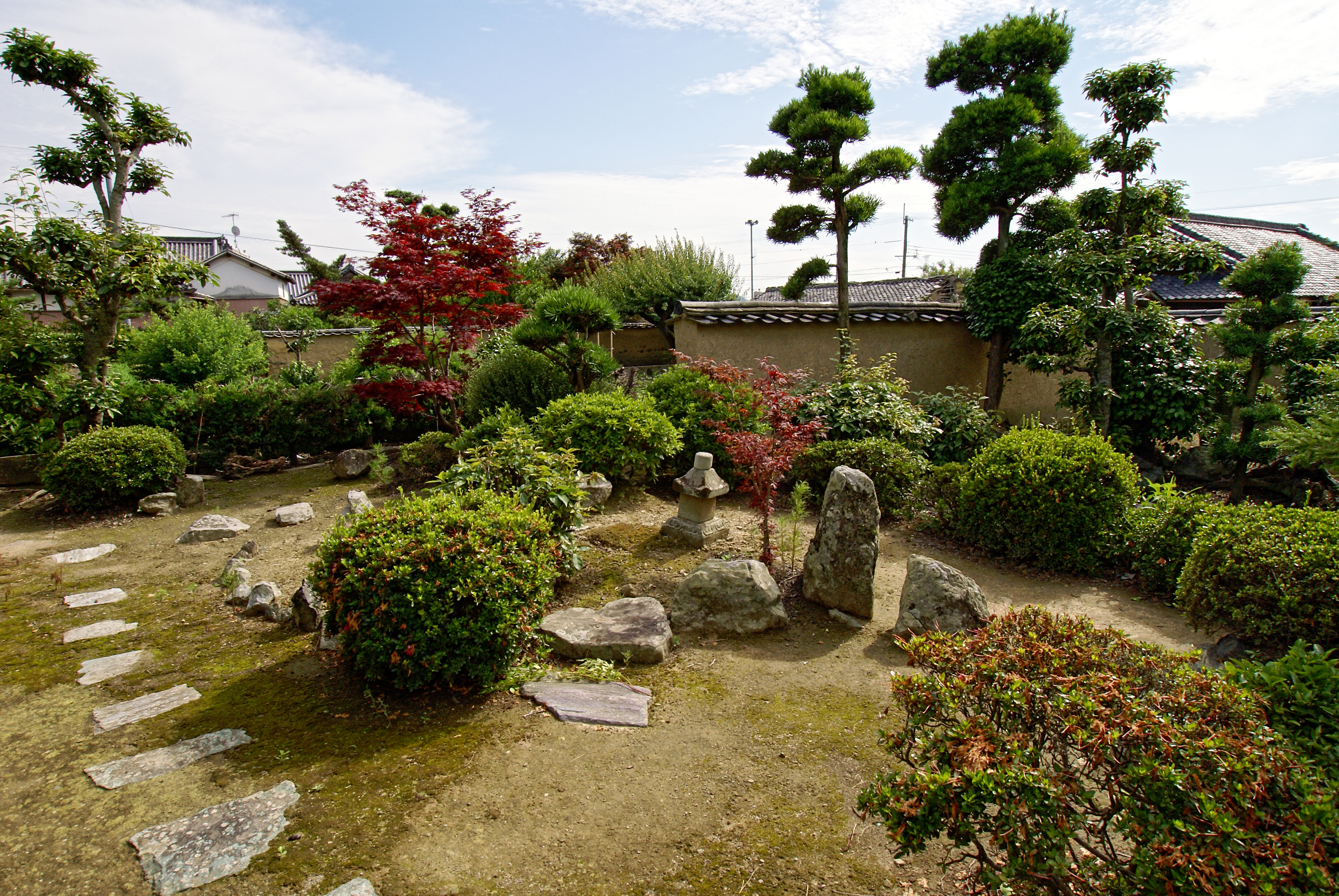 Momoi house in Iwade, Wakayama prefecture, Japan